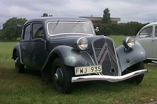 Citroën traction avant 11 B ca. 1936 taken by Thomas Forsman